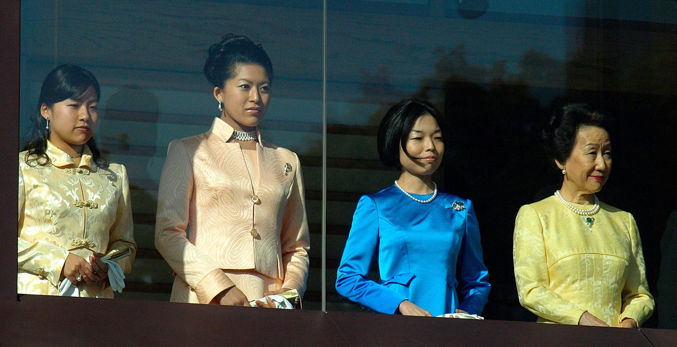 Princess Hanako, Princess Akiko, Princess Tsuguko and Princess Ayako appeared the "Visit of the General Public to the Palace for the New Year Greeting" at the Tokyo Imperial Palace in Chiyoda Ward, Tōkyō Metropolis on January 2, 2011.